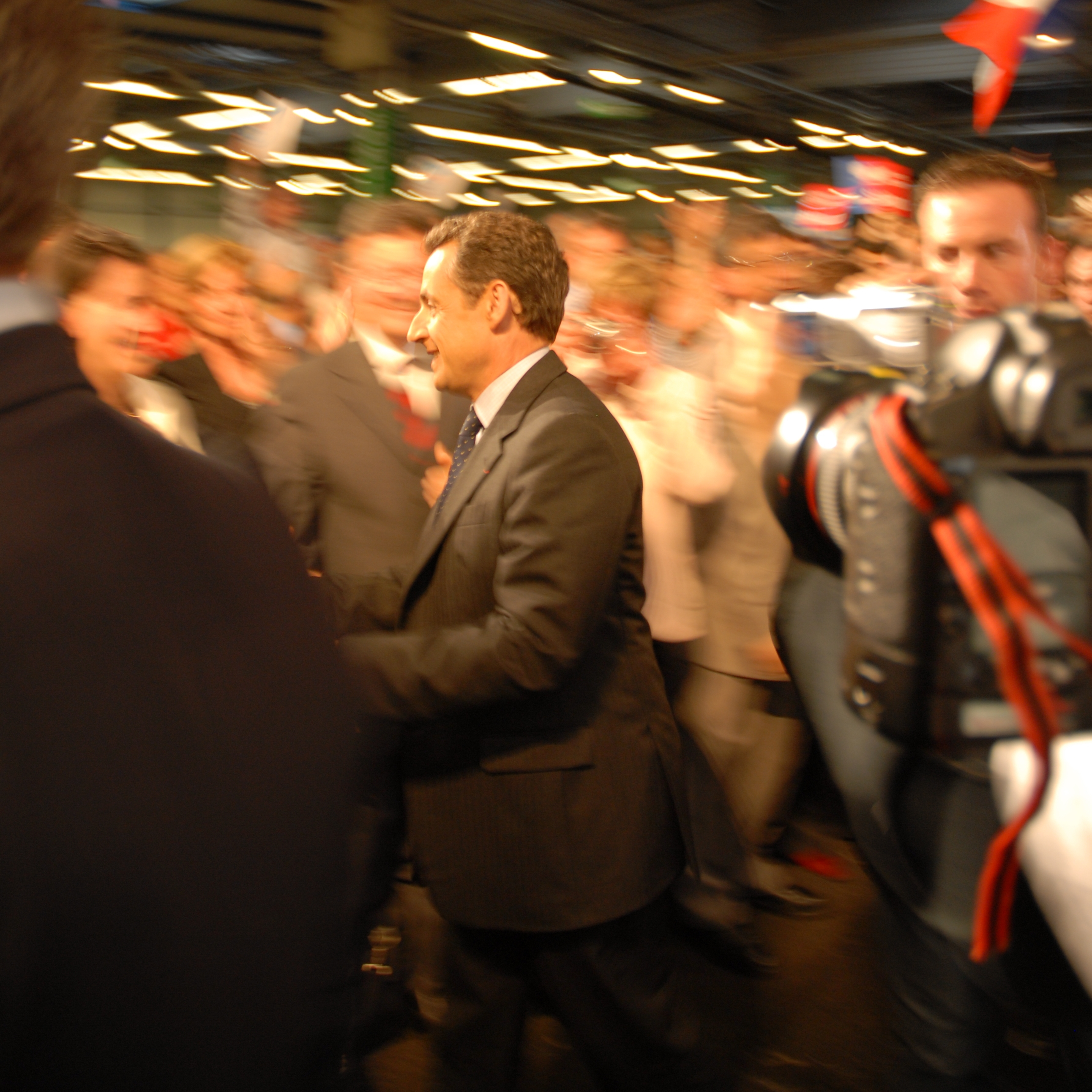 Nicolas Sarkozy during his meeting in Toulouse on April, 12th 2007 for the 2007 presidential election.